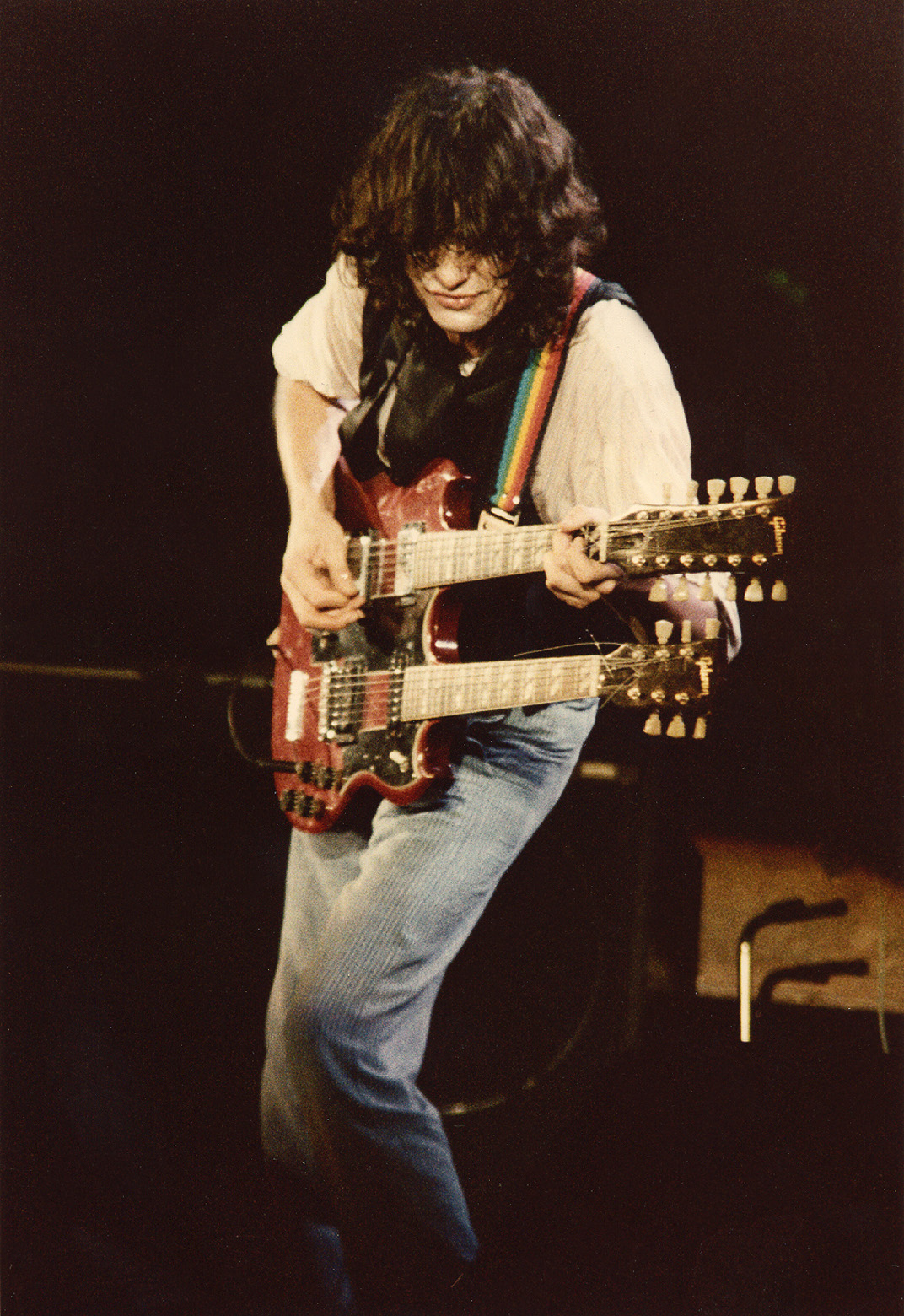 Jimmy Page at the Cow Palace, San Francisco, California. December 2, 1983. Canon AE-1, 80-200 Toyo lens. 400 ASA.